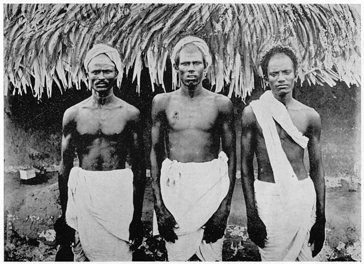 Group of Agamudayar cultivators in Madura district, Madras Presidency (now Madurai, Tamil Nadu), c. 1905